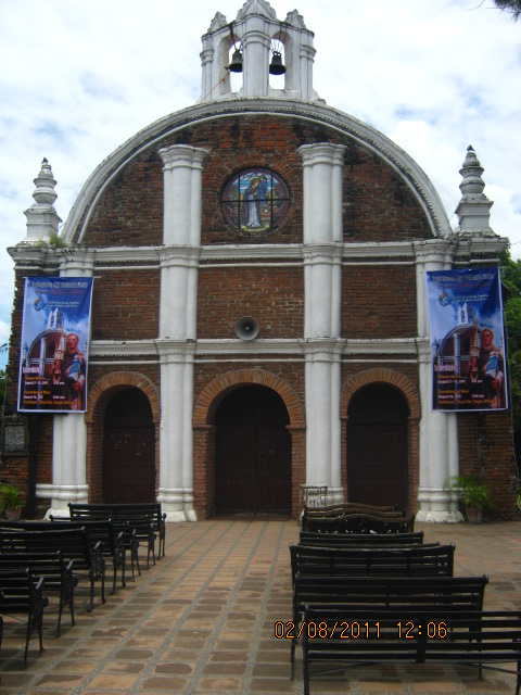 The picture of San Jacinto Church or commonly known as Ermita de Piedra de San Jacinto of Tuguegarao City.